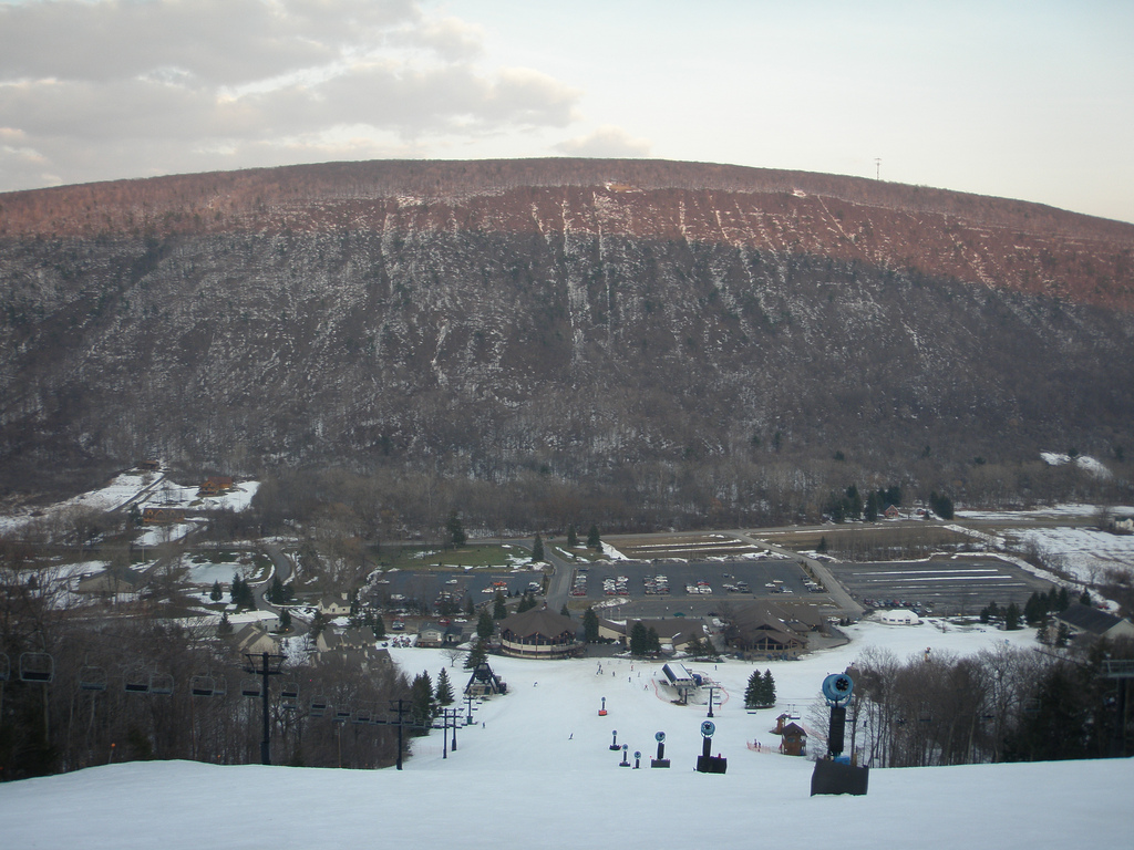 View from half way up Bristol Mountain